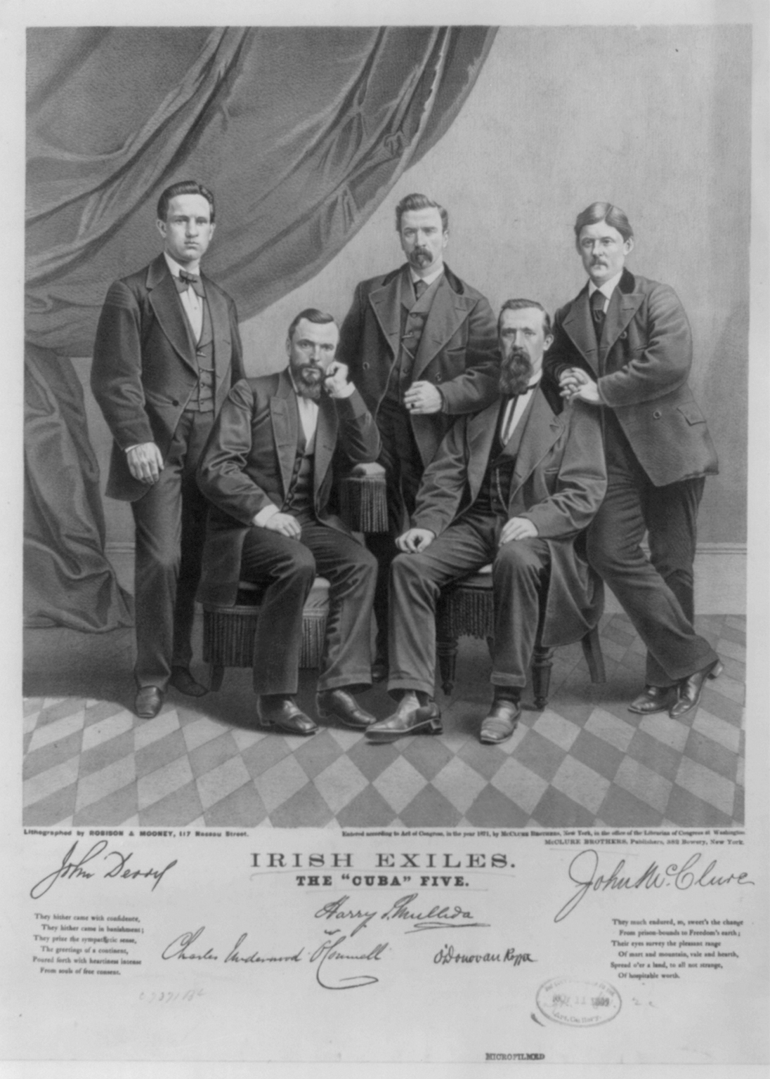 Irish exiles: "The Cuba five". Library of Congress description: "Print shows John Devoy (far left), standing, Charles Underwood O'Connell, (second from left) seated, Harry Mulleda (center), standing, Jeremiah O'Donovan Rossa, (second from right) seated, and John McClure (far right) standing, the five Irish Fenian prisoners who under general amnesty were released by the British to America on Jan. 5 1871, and were shipped together aboard the Cuba. Printed below the image are signatures of each of the men along with two stanzas of a poem which begins: 'They hither came with confidence, They hither came in banishment.'"